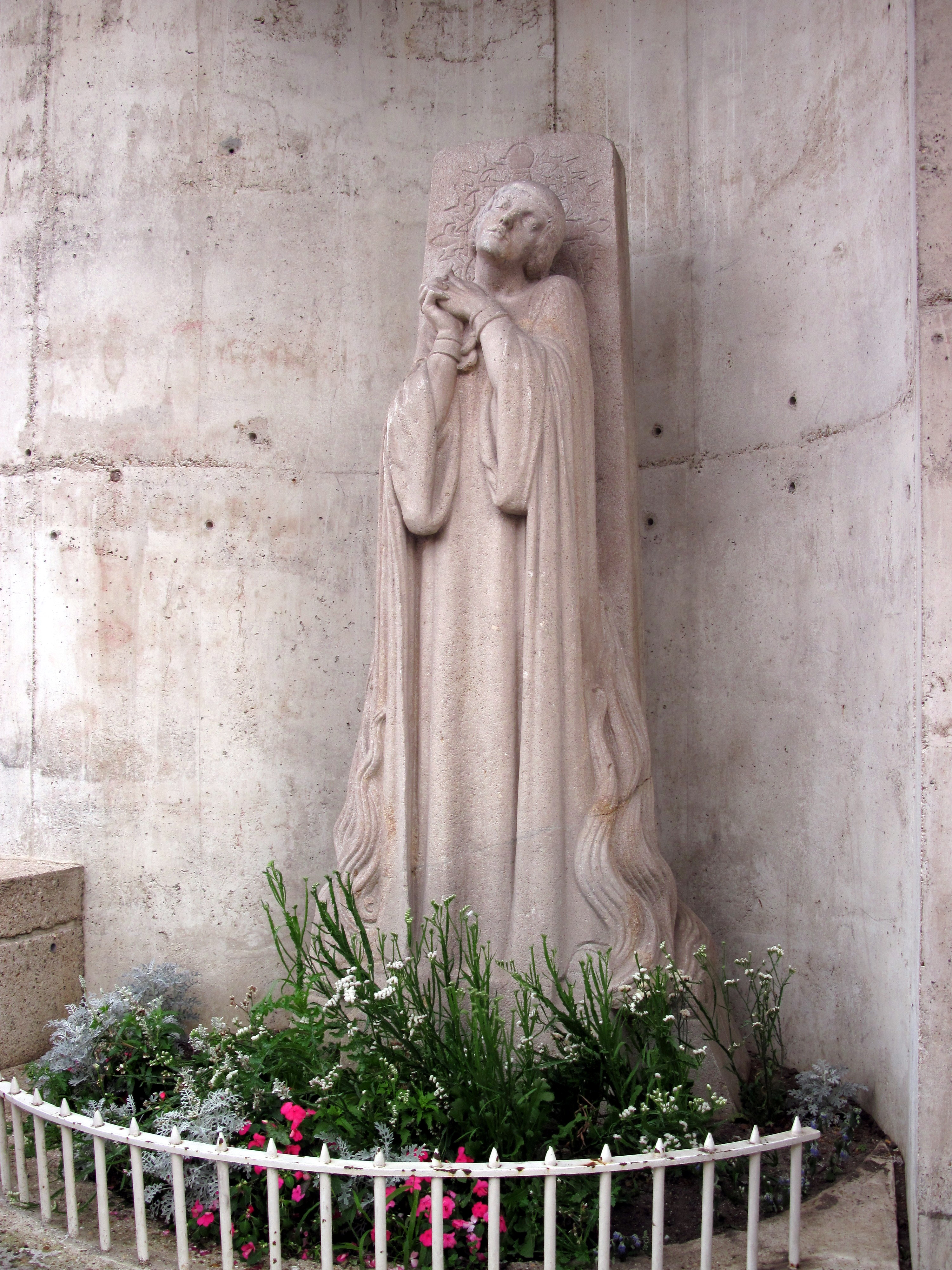 Statue of Joan of Arc in Rouen, very near the place where she was burnt at the stake in 1431.